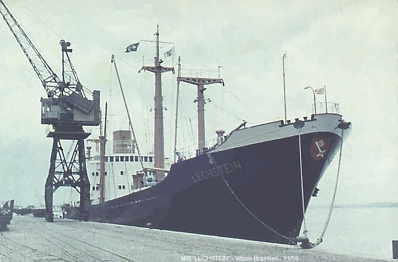 Motorship LECHSTEIN of the North German Lloyd in the port of Vitória, Brazil in November 1959.